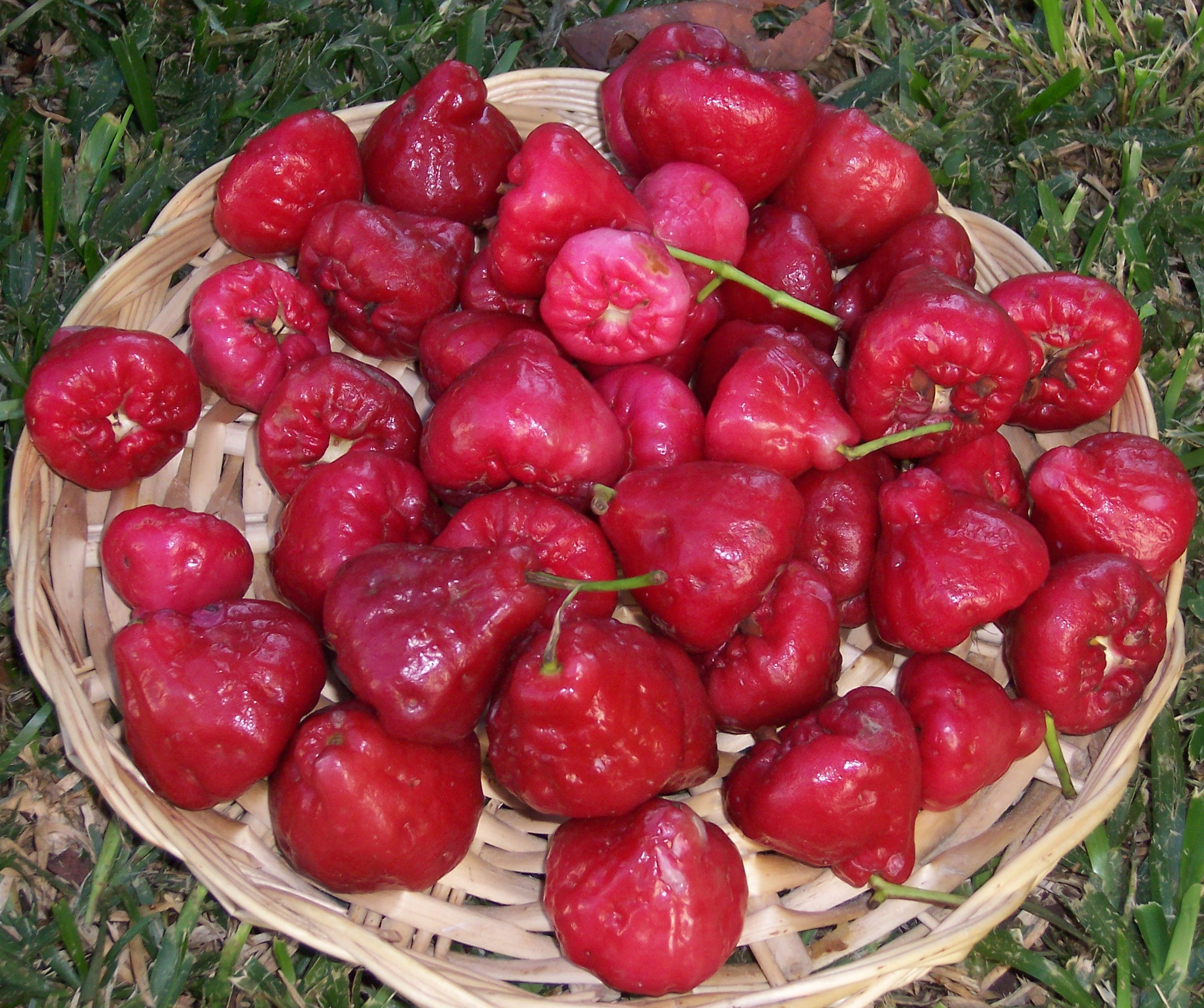 wax applefruit of Syzygium samaragense